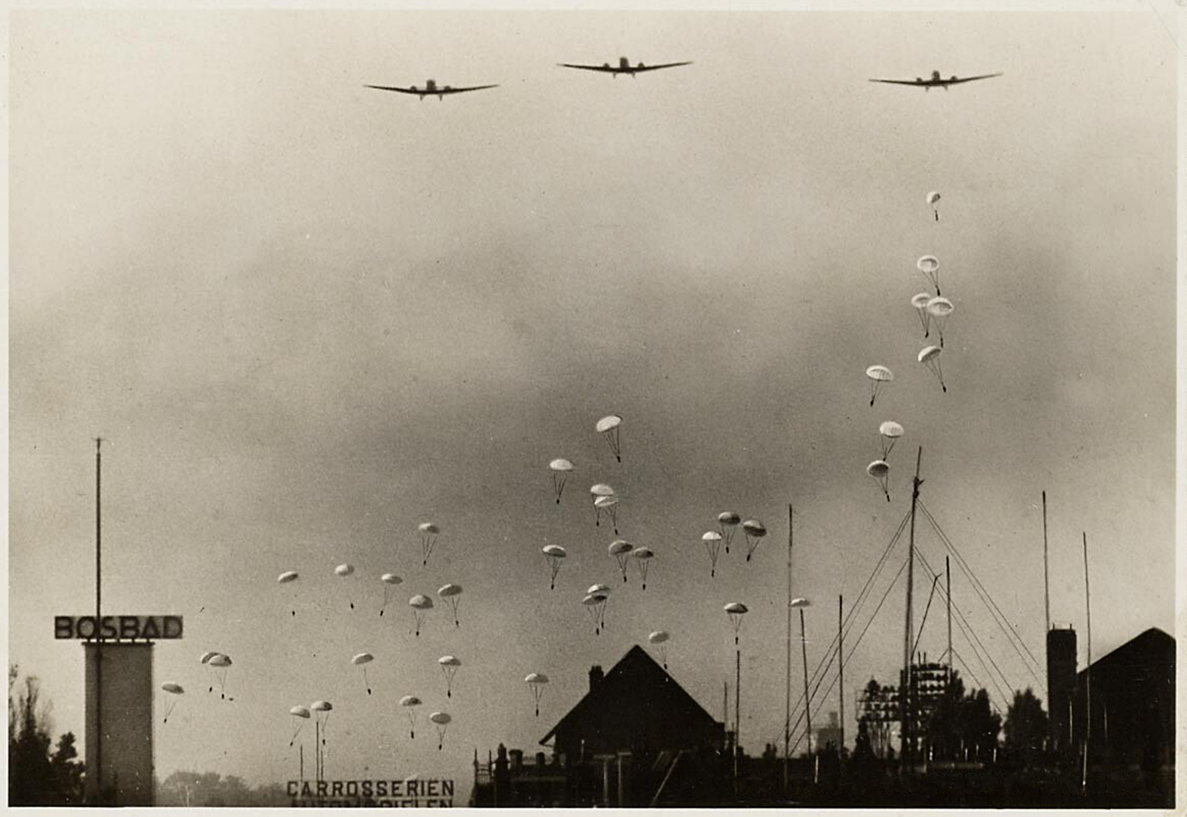 Bezuidenhout district, The Hague,10 May 1940, German paratroopers